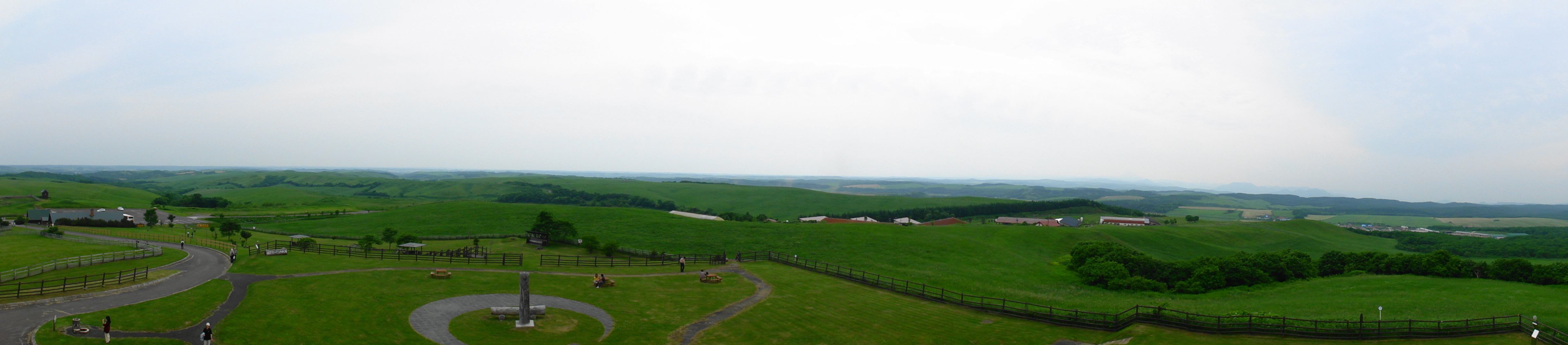 View from Tawadaira (west from the east))